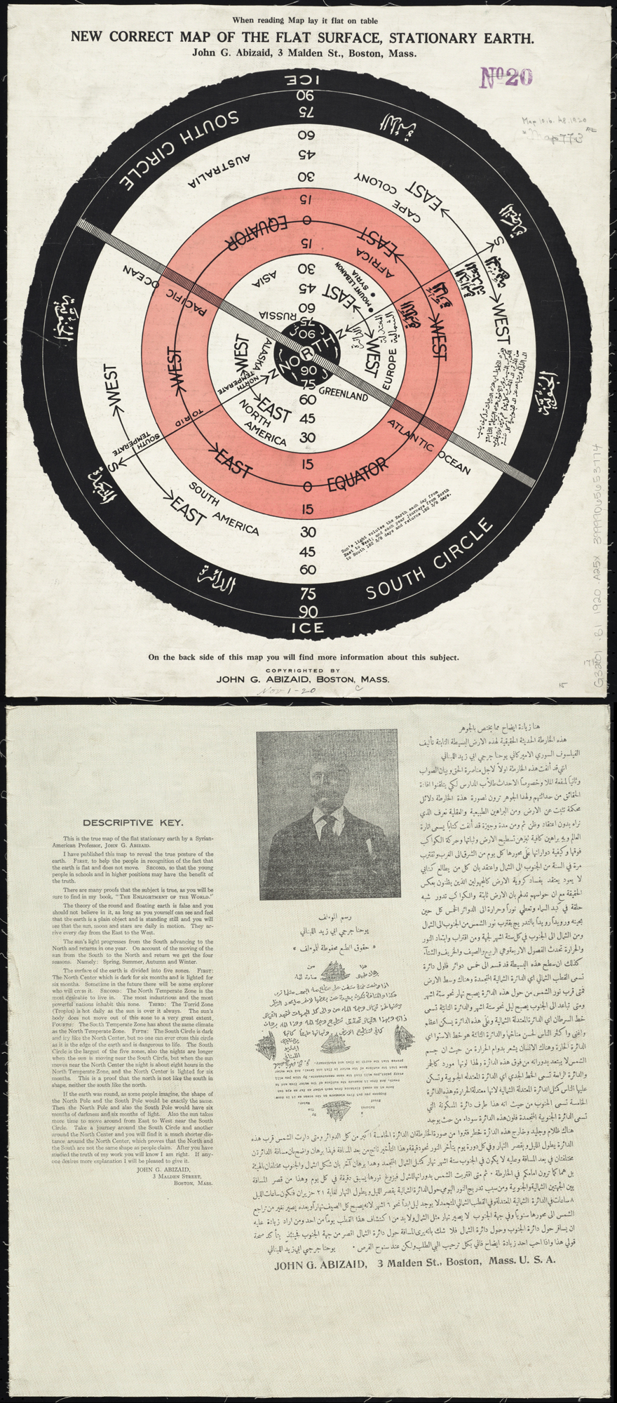 Zoom into this map at . Author: Abizaid, John George Publisher: Date: 1920 Location: World Dimensions: 44 x 38 cm. Scale: Not drawn to scale Call Number: G3201.B1 1920 .A25x